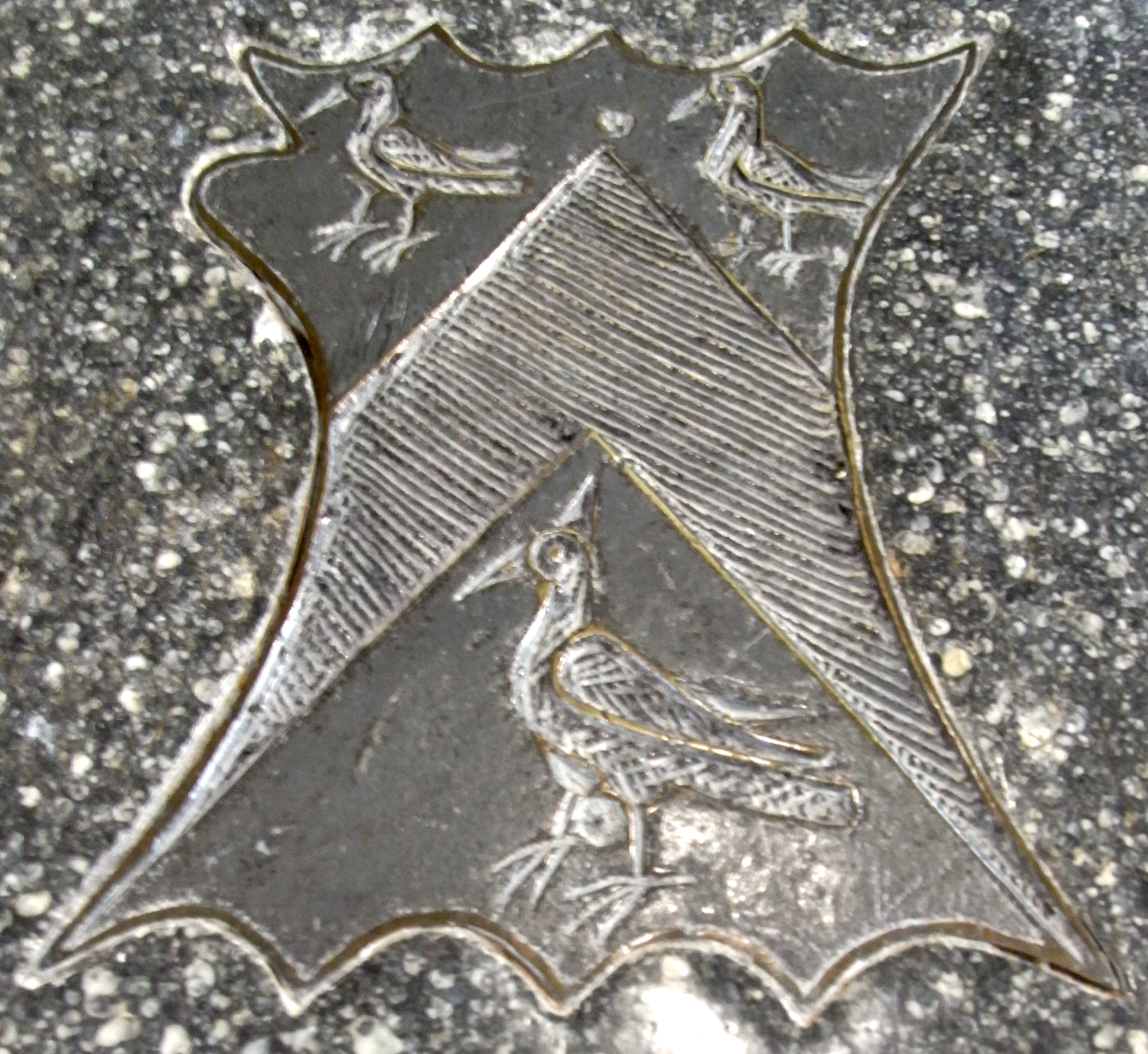 Arms of Twynyho: Argent, a chevron between three lapwings close sable. (Source: Visitation of the County of Gloucester Taken in the Year 1623 by Henry Chitty and John Phillipot, ed. Maclean, Sir John, London, 1885, pp.262-3, "Twinyho"). Engraved into the purbeck marble ledger stone on top of the chest-tomb of John Tame (d.1500), builder of Fairford Church, in Fairford Church, Gloucestershire. The wife of John Tame was Alice Twynyho, daughter of his business partner John Twynyho (d.1485) of Cirencester, whose monumental brass survives in St Lawrence's Church, Lechlade, Glos. Chitty, Visitation of Gloucestershire 1623, p.262